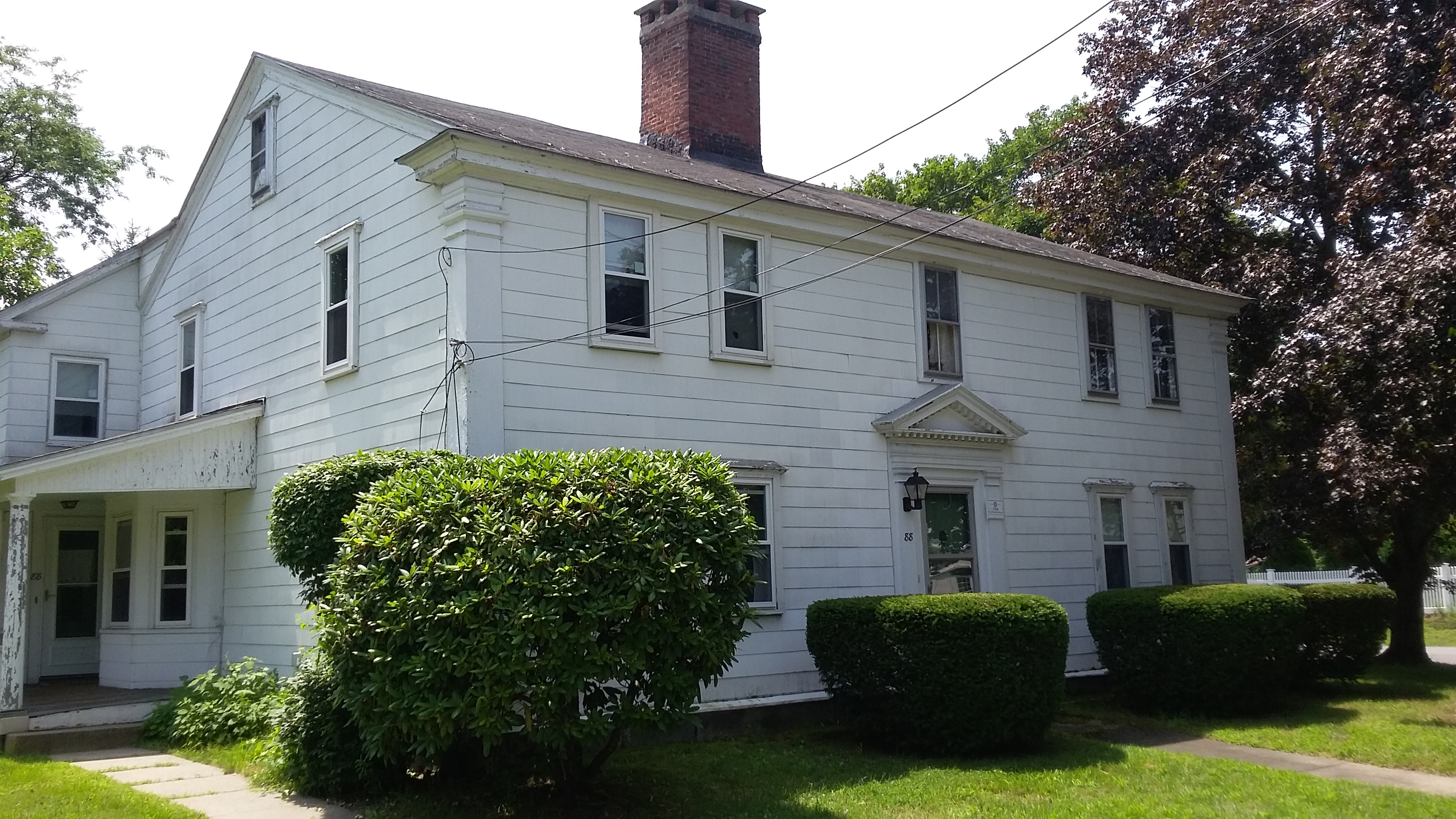 Silas Brooks House at 88-90 Summer Street in Maynard MA home to Revolutionary War soldier, and minuteman Luke Brooks